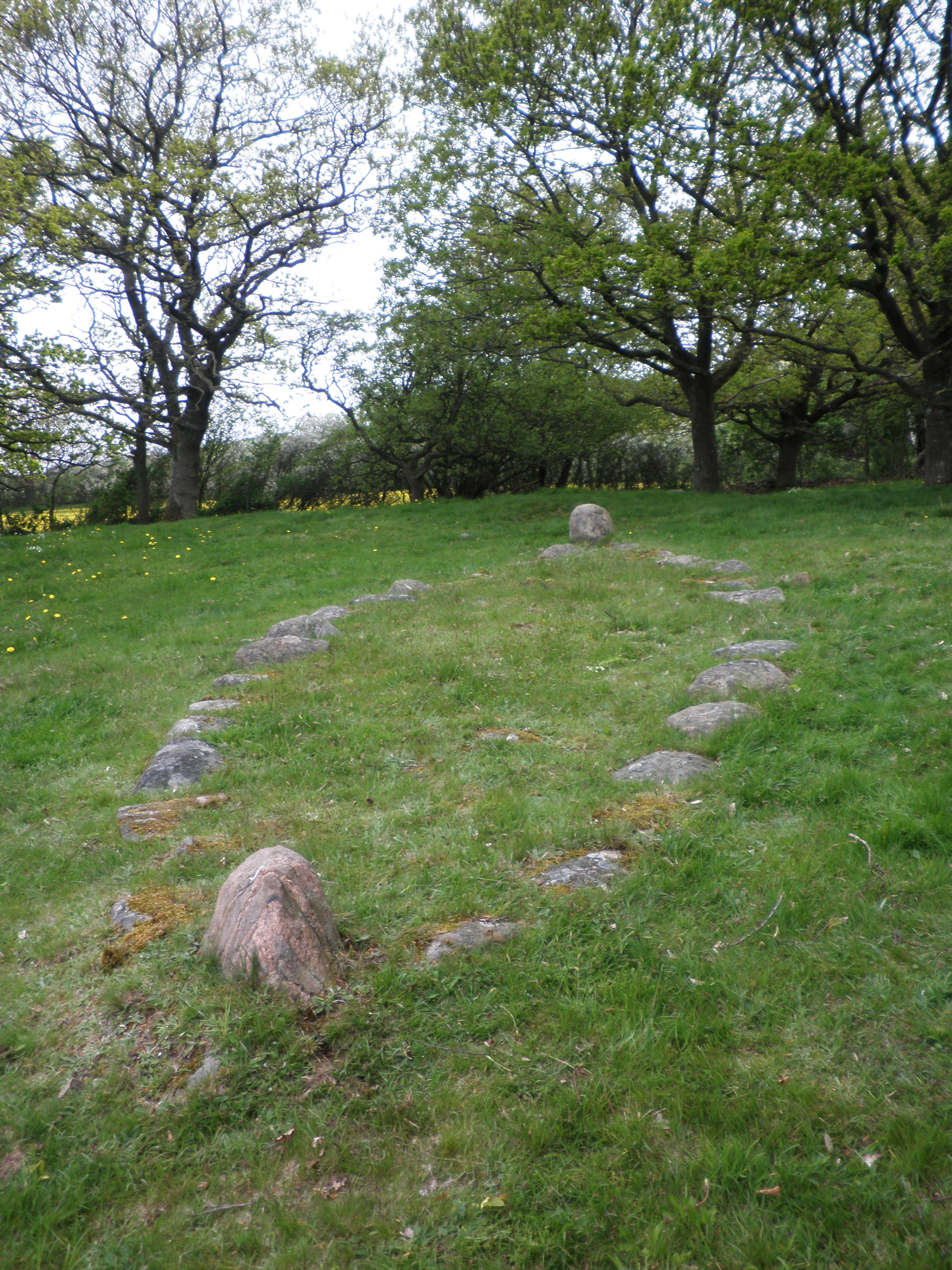 Stone ship at Tofta högar (RAÄ Number Hov 109:1) in Hov parish, Bjäre hundred, Båstad municipality, Skåne County, Scania, Sweden.